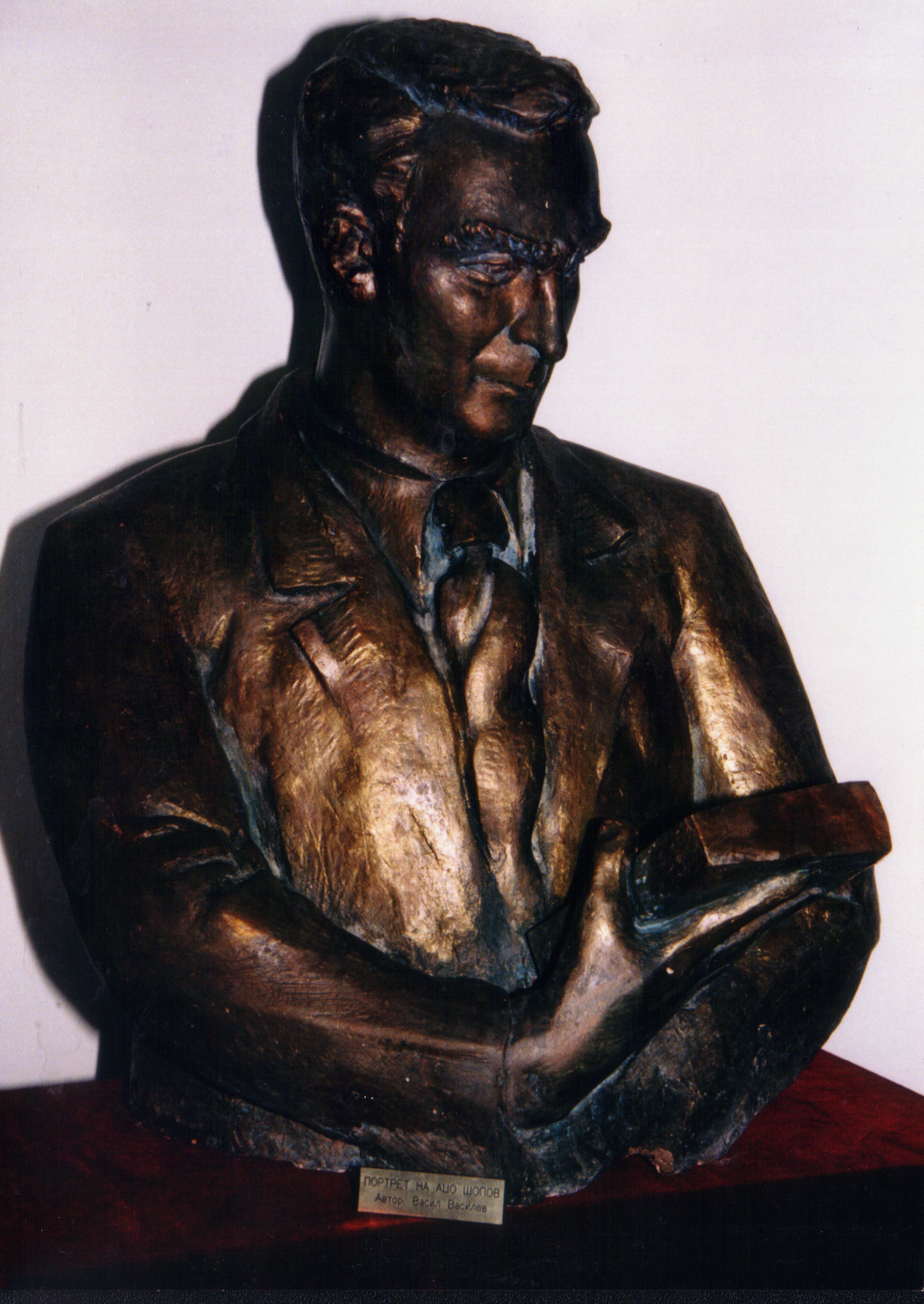 Bust of Macedonian poet Aco Sopov (1923-1982), made by the Macedonian sculptor Vasil Vasilev. Place: "Aco Sopov" school in Radisani (near Skopje)